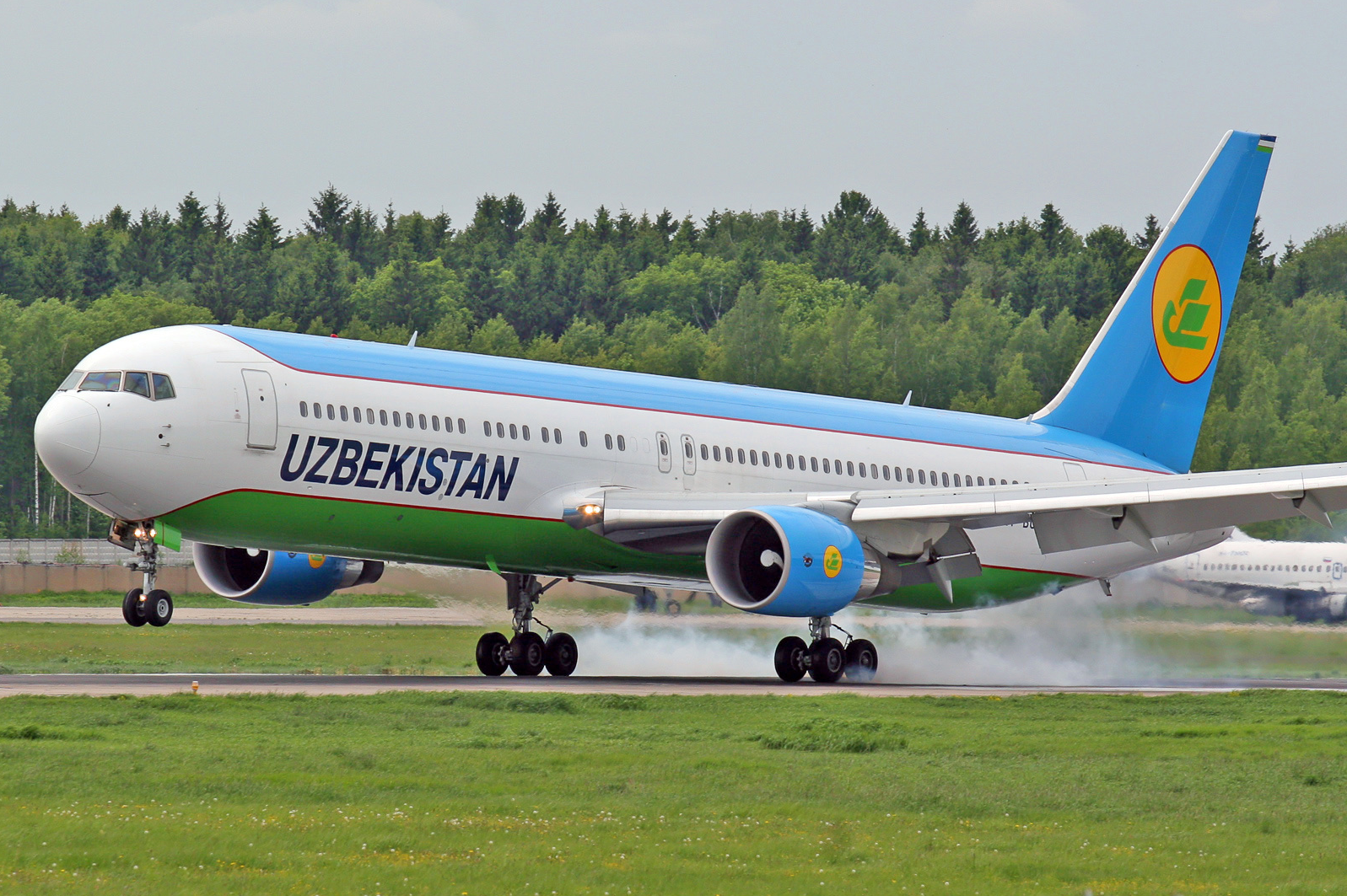 Touchdown of an Uzbekistan Airways Boeing 767-33P/ER at Domodedovo International Airport(DME/UUDD), Moscow, Russia